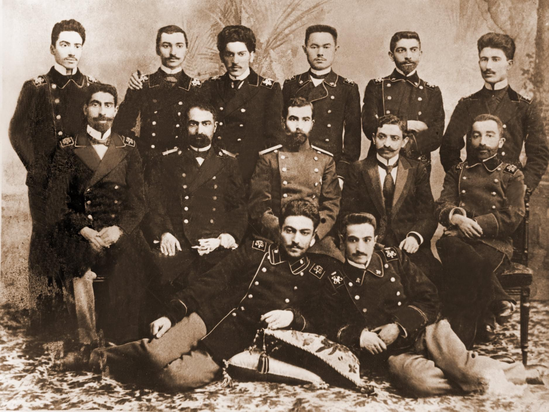 Azerbaijani students in Saint Petersburg Technological Institute